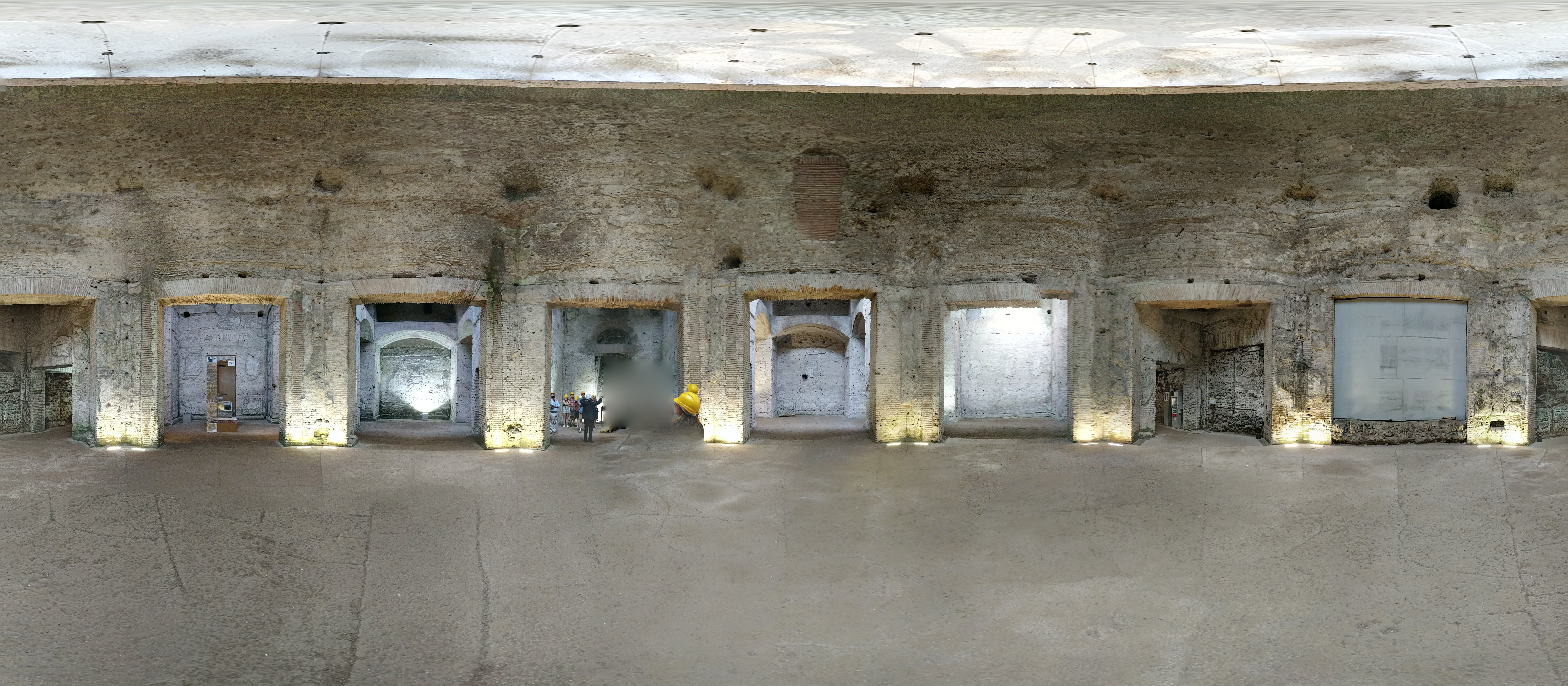 Rome, Italy